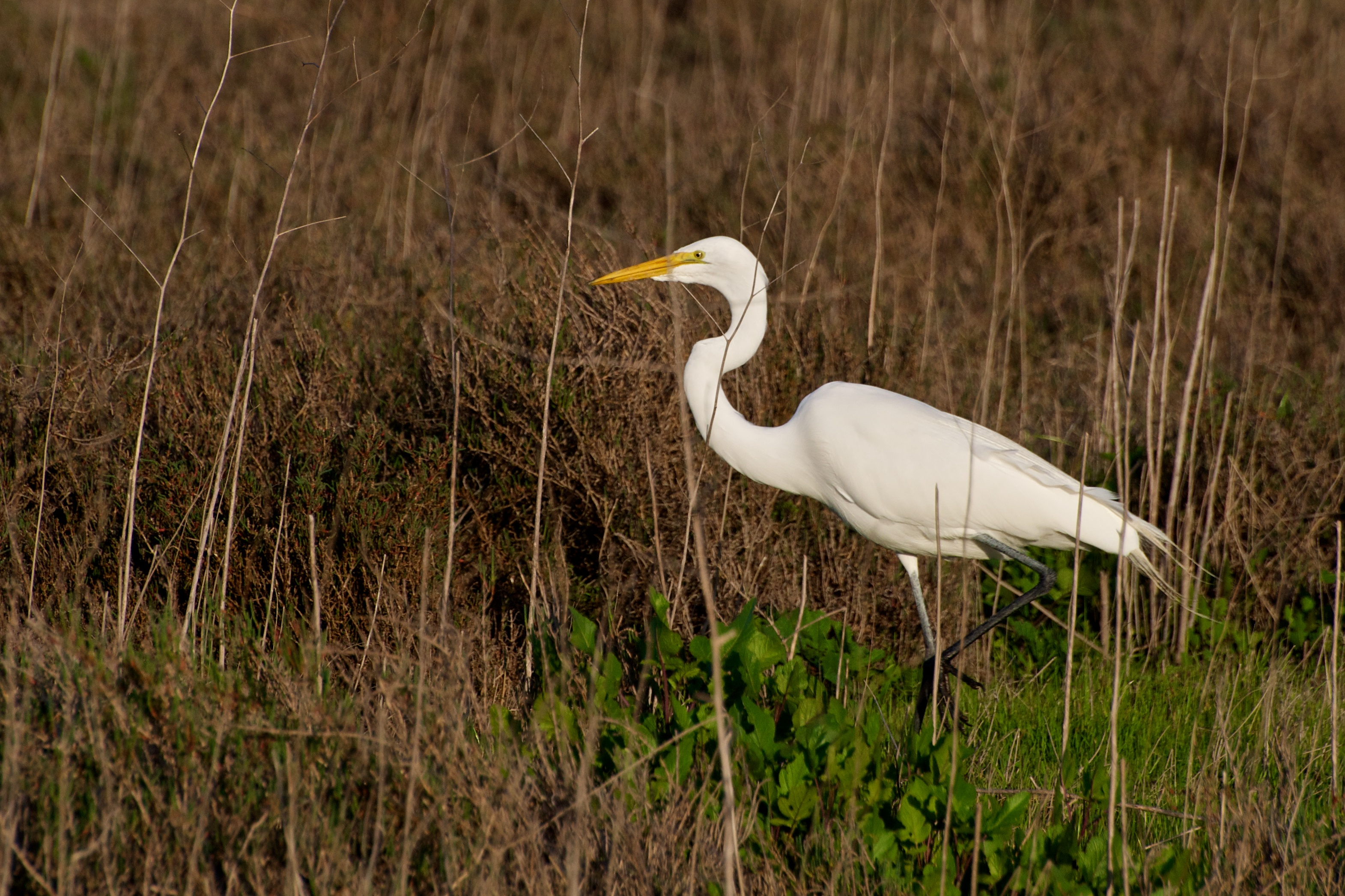 A Great Egret at the Palo Alto Baylands in San Francisco Bay, California, USA.